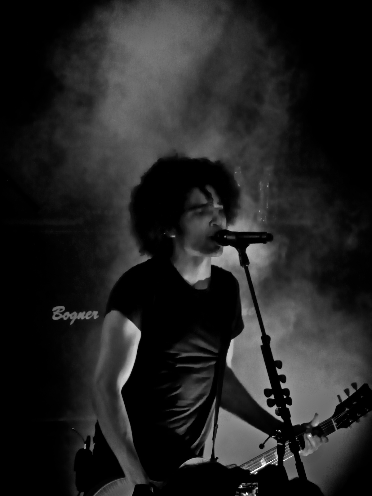 William DuVall live at London, 2009